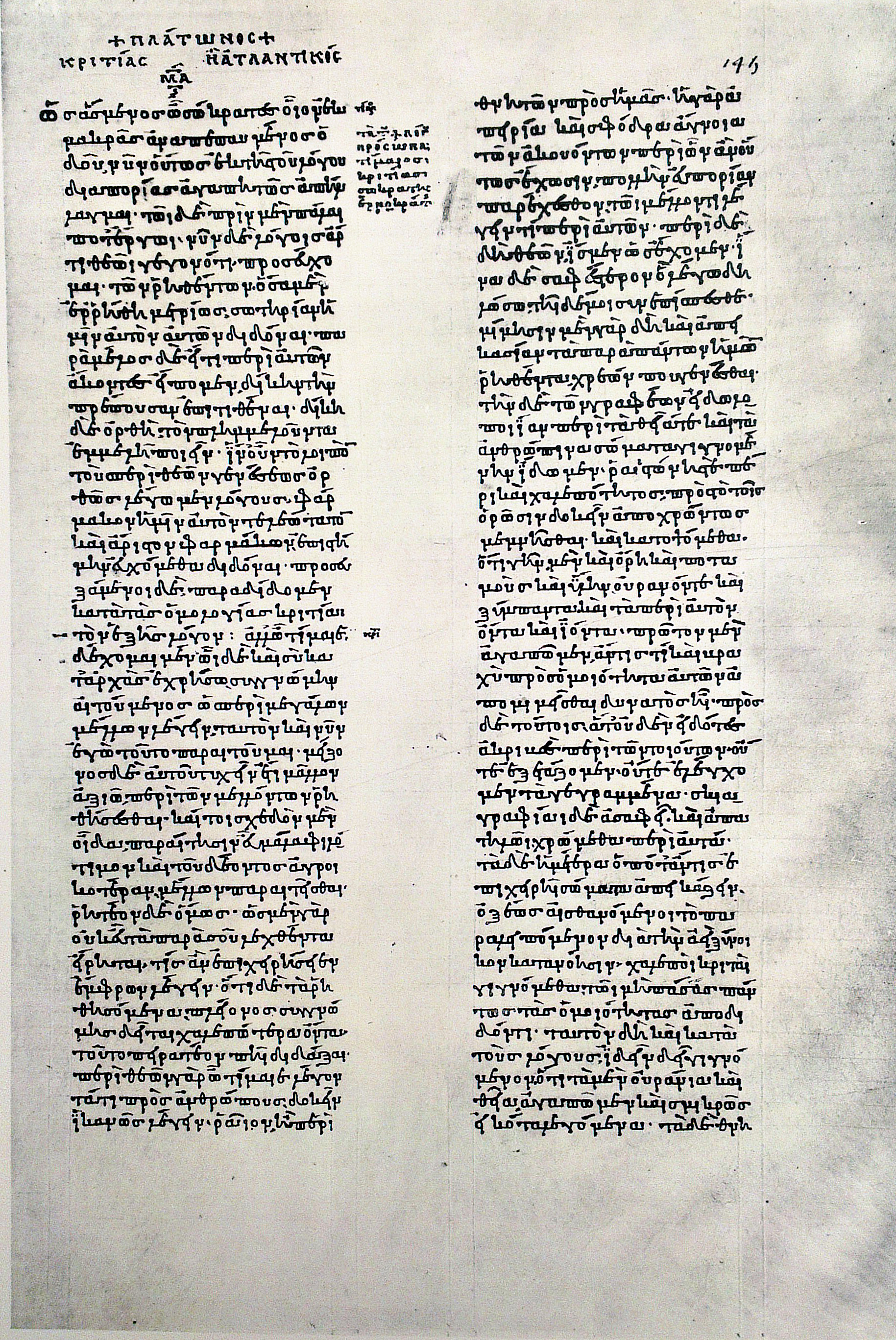 Page of the Codex Parisinus graecus 1807. Dialogue Kritias.